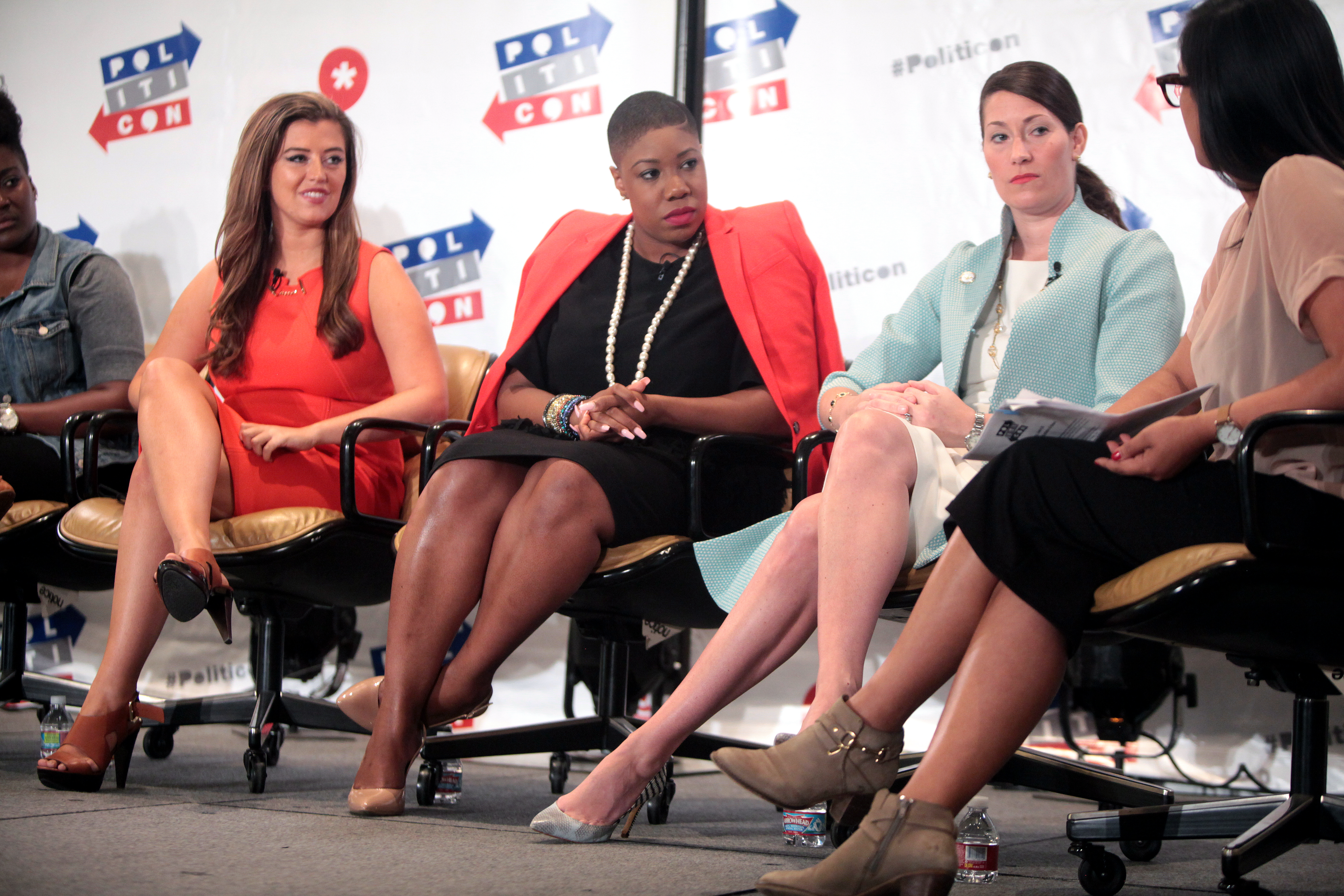 Carolina Hurley, Symone Sanders and Secretary of State of Kentucky Alison Lundergan Grimes speaking at the 2016 Politicon at the Pasadena Convention Center in Pasadena, California.